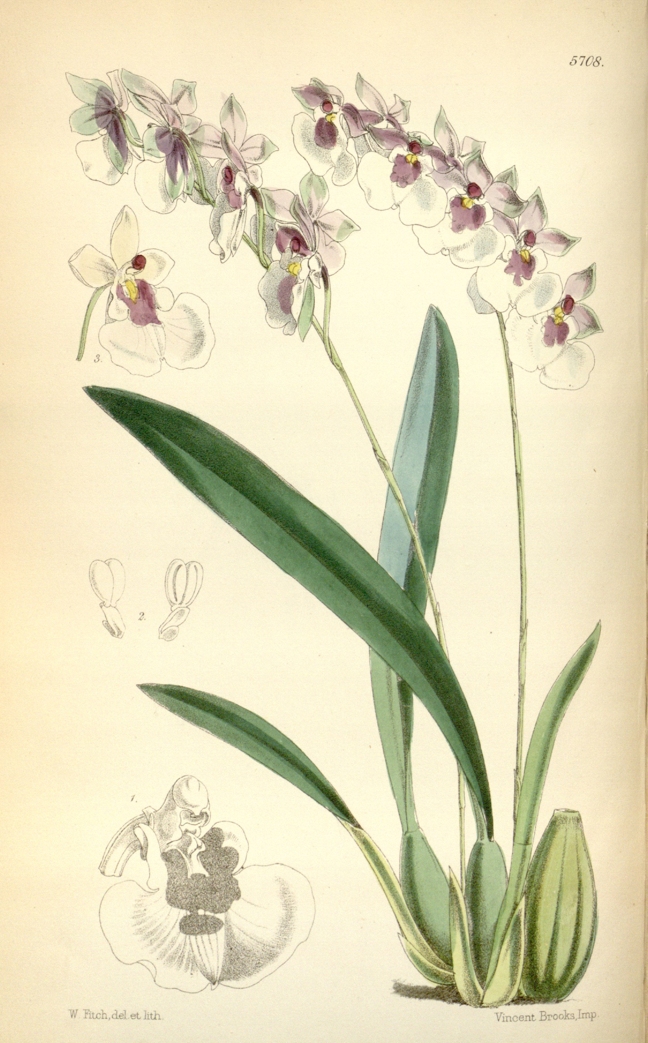 Illustration of Caucaea nubigena or Oncidium nubigenum